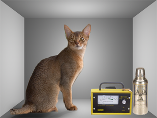 An illustration of the famous "Schrödinger's Cat" thought experiment. Created with Photoshop CS2 using illustrations from the Commons.